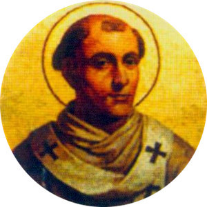 Portait of Pope Leo IV in the Basilica of Saint Paul Outside the Walls, Rome